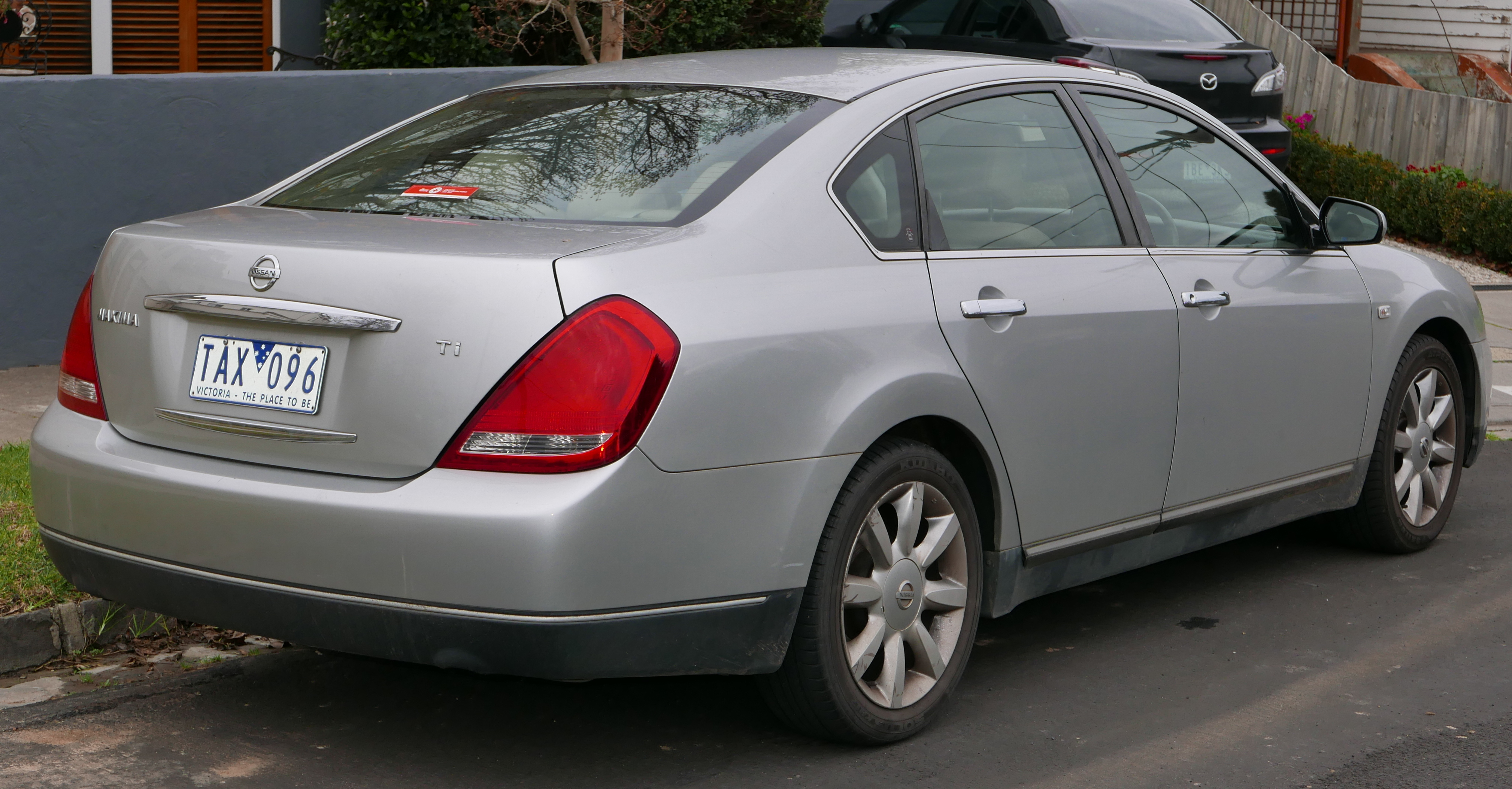 2004 Nissan Maxima (J31) Ti sedan. Photographed in Kew, Victoria, Australia. Vehicle registration enquiry resultsJurisdictionVictoriaRegistrationTAX096Chassis codeJN1BBUJ31A0008424Engine codeVQ35342270BCompliance date2004-10Year of manufacture2004